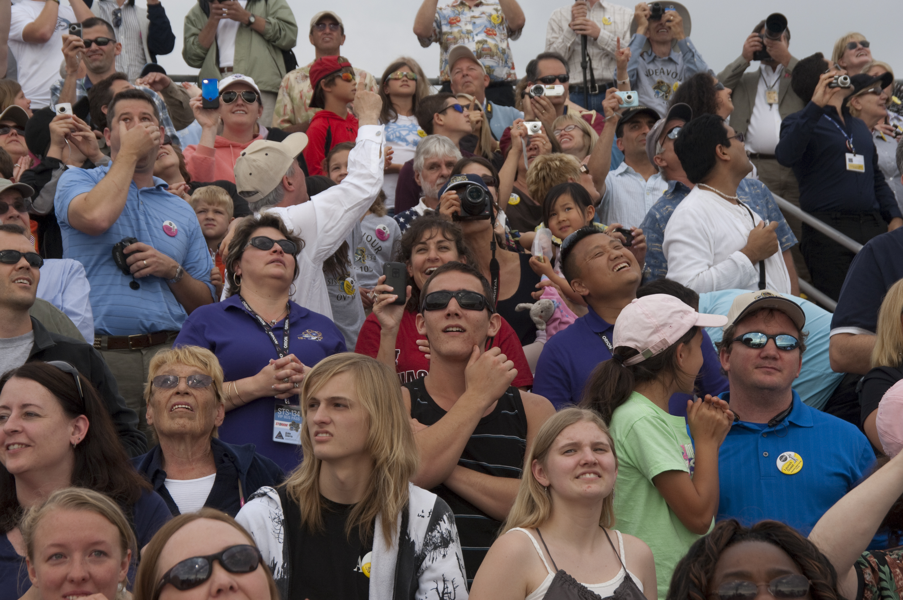 CAPE CANAVERAL, Fla. - Spectators at the Banana Creek Viewing Site near the Saturn V Center at NASA's Kennedy Space Center in Florida watch as space shuttle Endeavour soars skyward. The shuttle lifted off on its STS-134 mission to the International Space Station on time at 8:56 a.m. EDT on May 16. The shuttle and its six-member crew are embarking on a mission to deliver the Alpha Magnetic Spectrometer-2 (AMS), Express Logistics Carrier-3, a high-pressure gas tank and additional spare parts for the Dextre robotic helper to the space station. Endeavour's first launch attempt on April 29 was scrubbed because of an issue associated with a faulty power distribution box called the aft load control assembly-2 (ALCA-2).